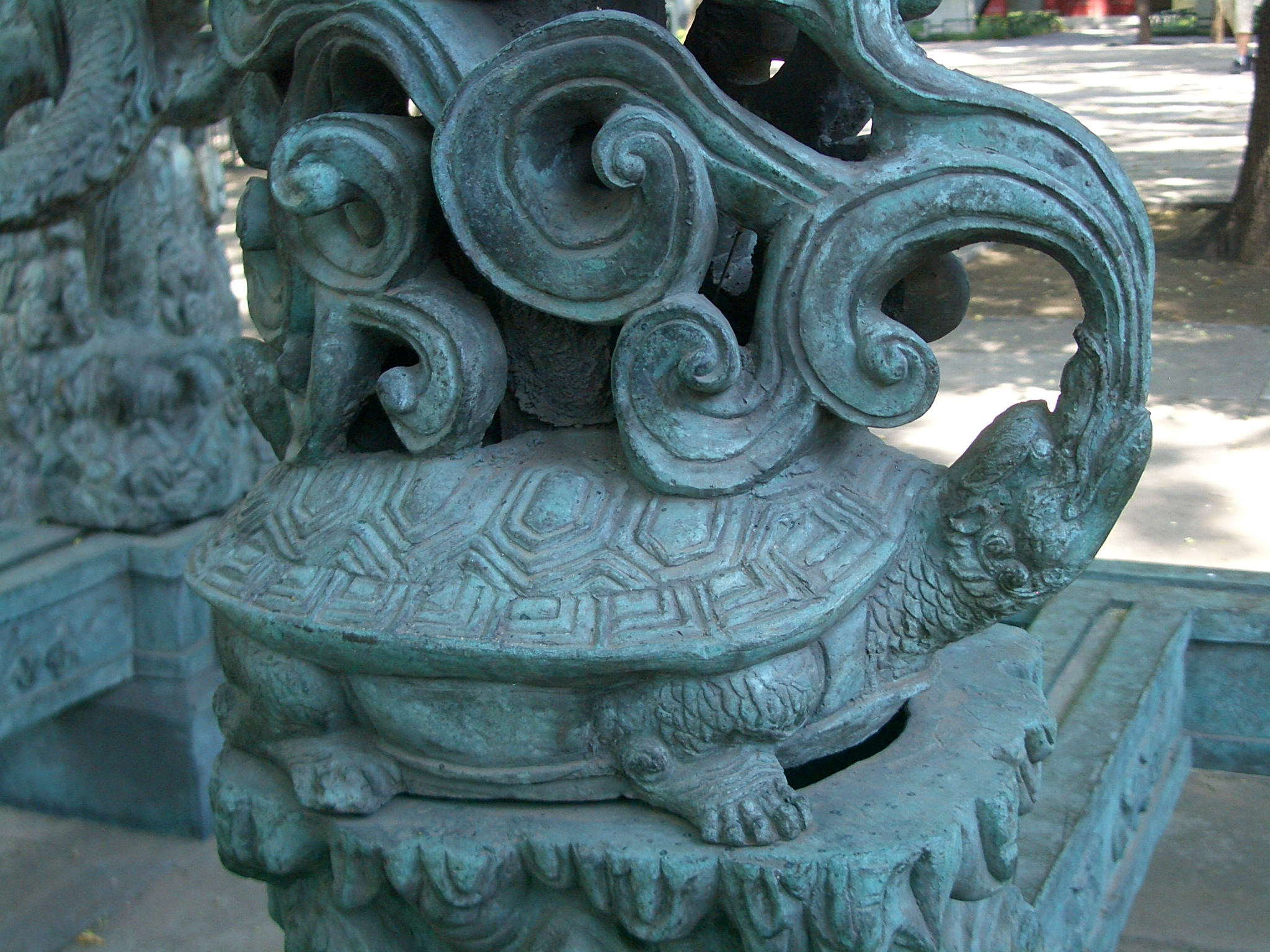 An armillary sphere, made in 1439, at Beijing Ancient Observatory. A round sphere above a square base (天圆地方!), it stands on a tortoise (reminding one, perhaps, of the Ao (鰲) turtle whose legs hold the sky in Nüwa's story!), and is supported from the 4 corners by dragons.